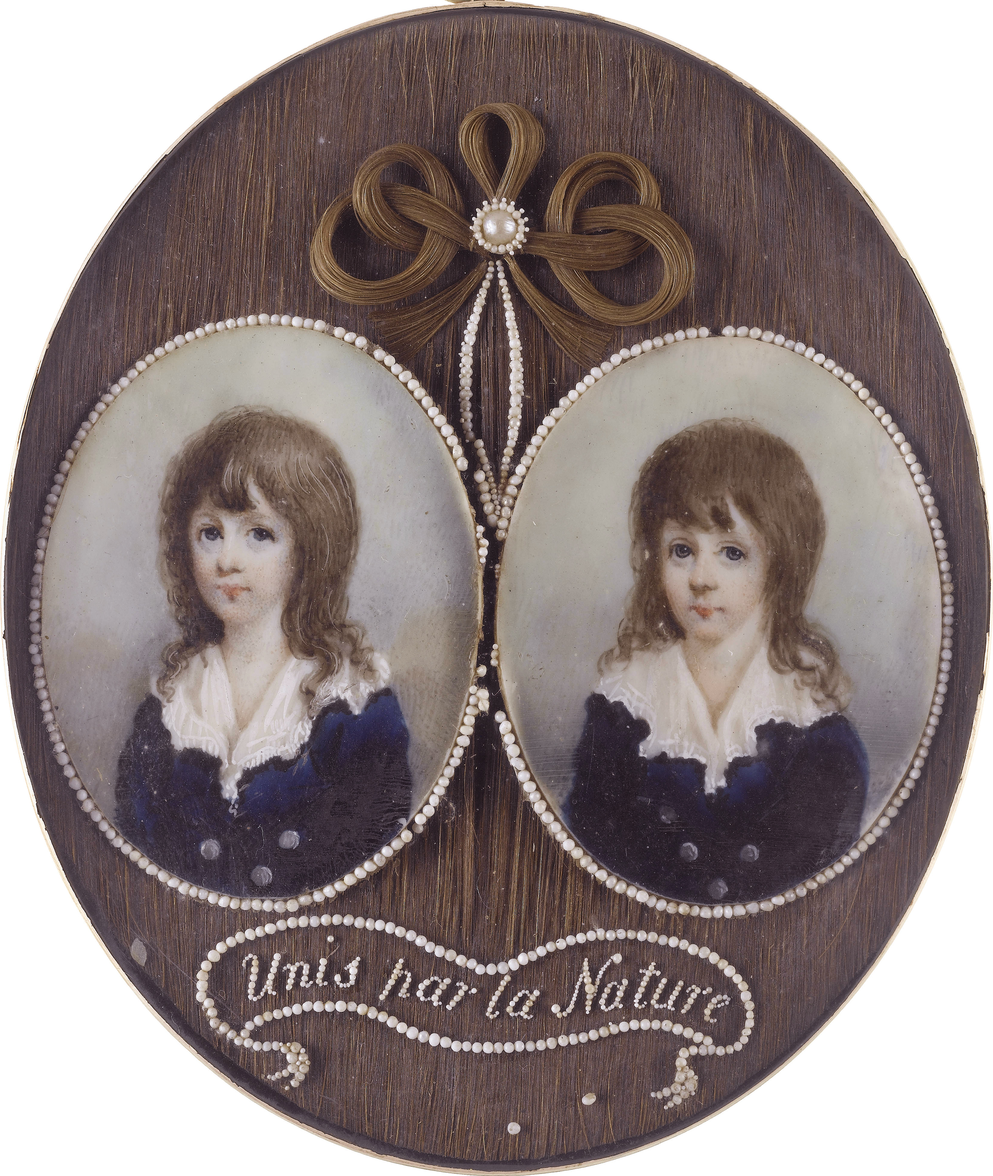 The twin sons of John Toler (1745-1831), 1st Earl of Norbury Daniel Toler (1781-1832), 2nd Baron Norwood and 2nd Baron Norbury, when Lord Norwood Hector John Graham-Toler (1781–1839), 2nd Earl of Norbury, when Lord Glandine paint on ivory frame: 8.9 cm high epigram: Unis par la Nature